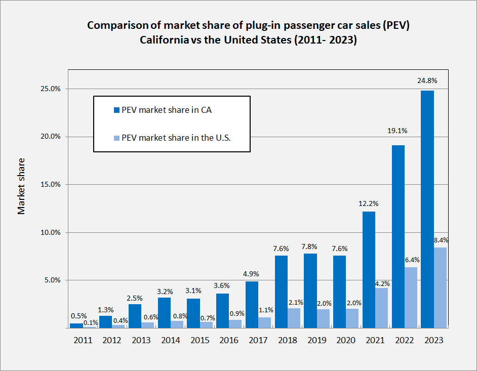 Comparison of plug-in electric car market shares California vs United States (2011-2019) Sources: California New Car Dealer Association (CNCDA): 2015-2019. 2014-2018, 2013-2015, 2011-2012 U.S.: monthly Dashboard (2011-2017) and for 2018 and 2019.